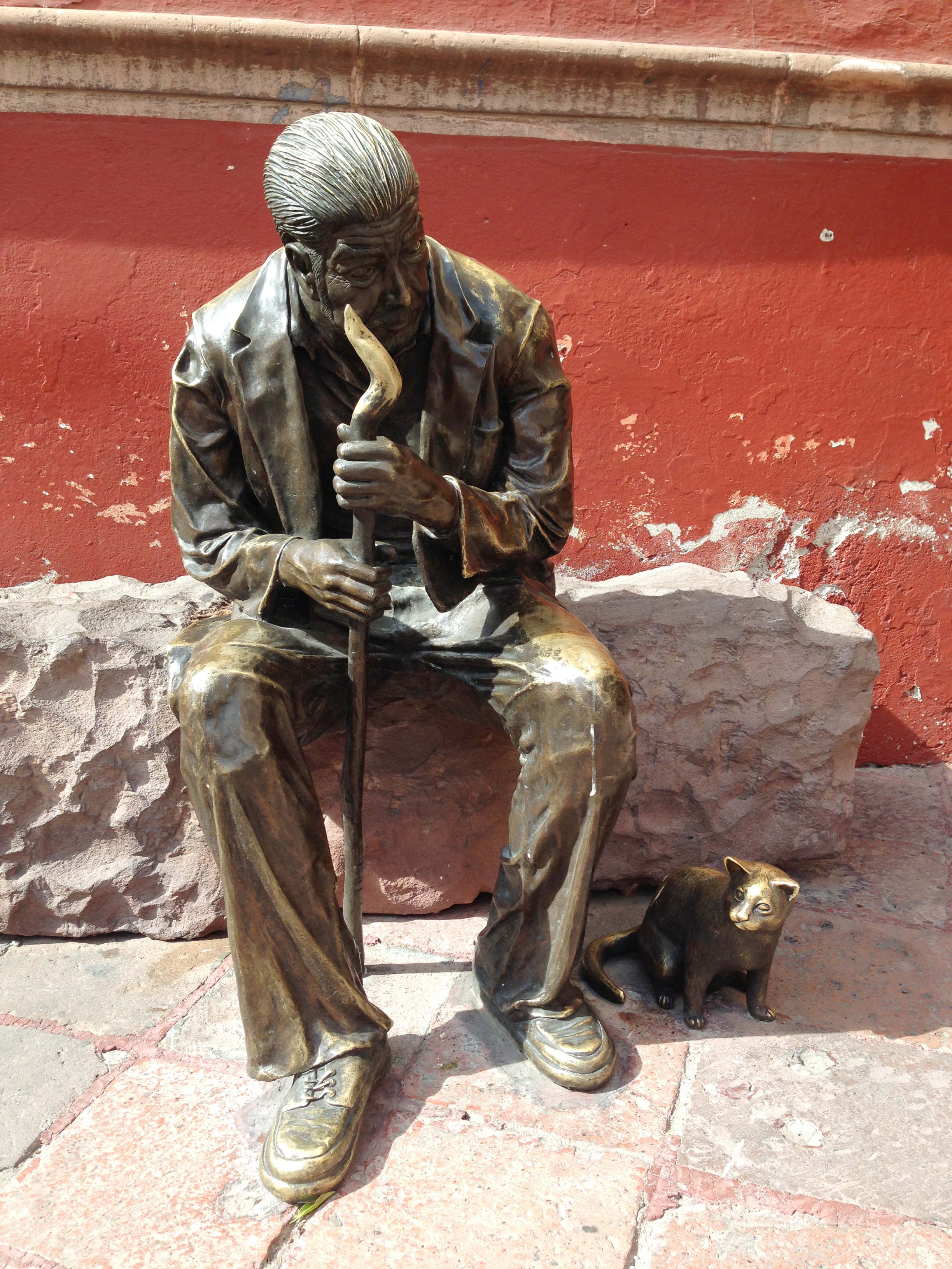 Life-size bronze sculpture depicting Queretaro's poet Francisco Cervantes Vidal (1938-2005), artwork created on 2013 by William Nezme and Patricia Paniagua.